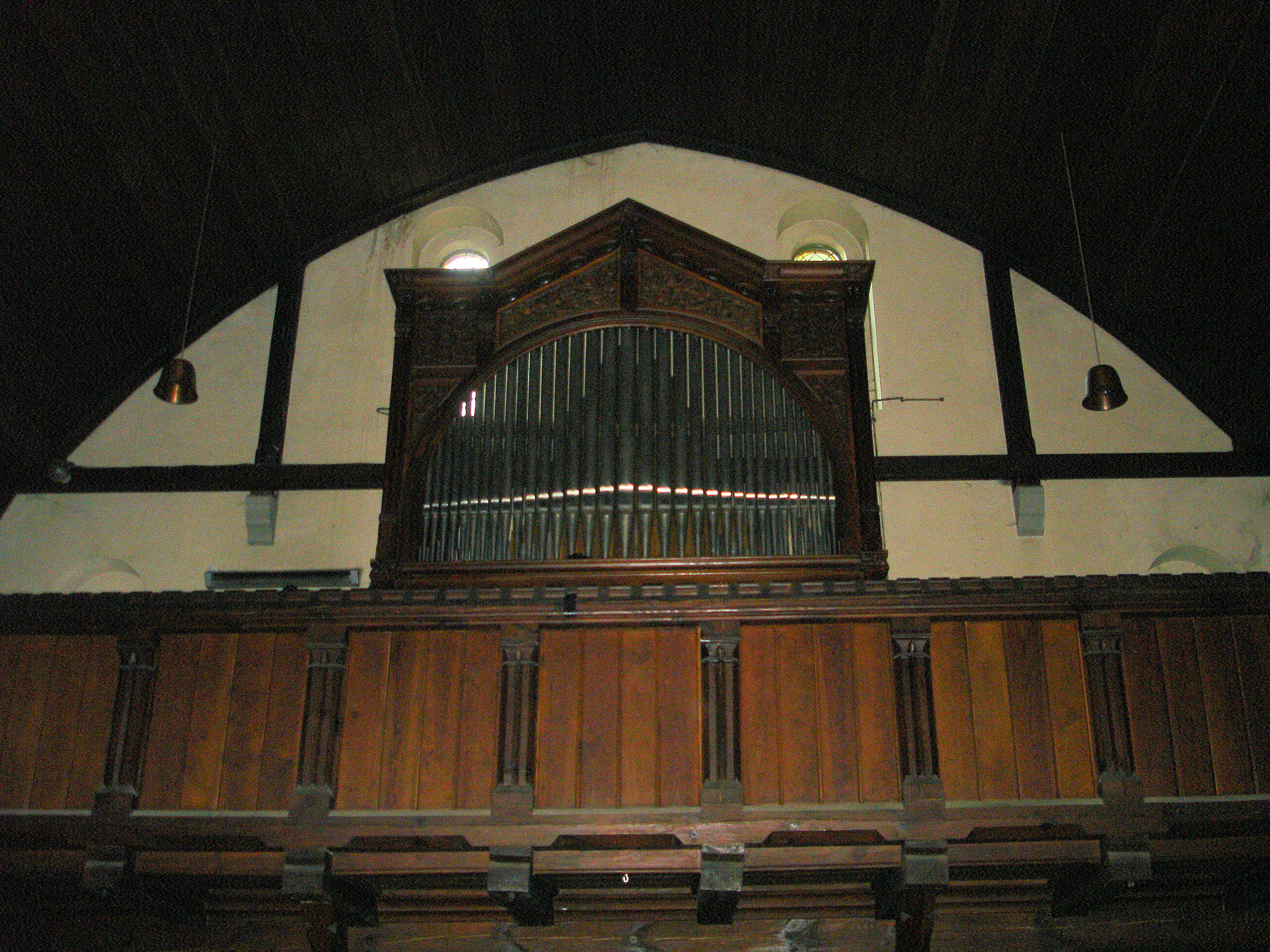 Organ of the Church in Graal-Müritz, Mecklenburg, Germany